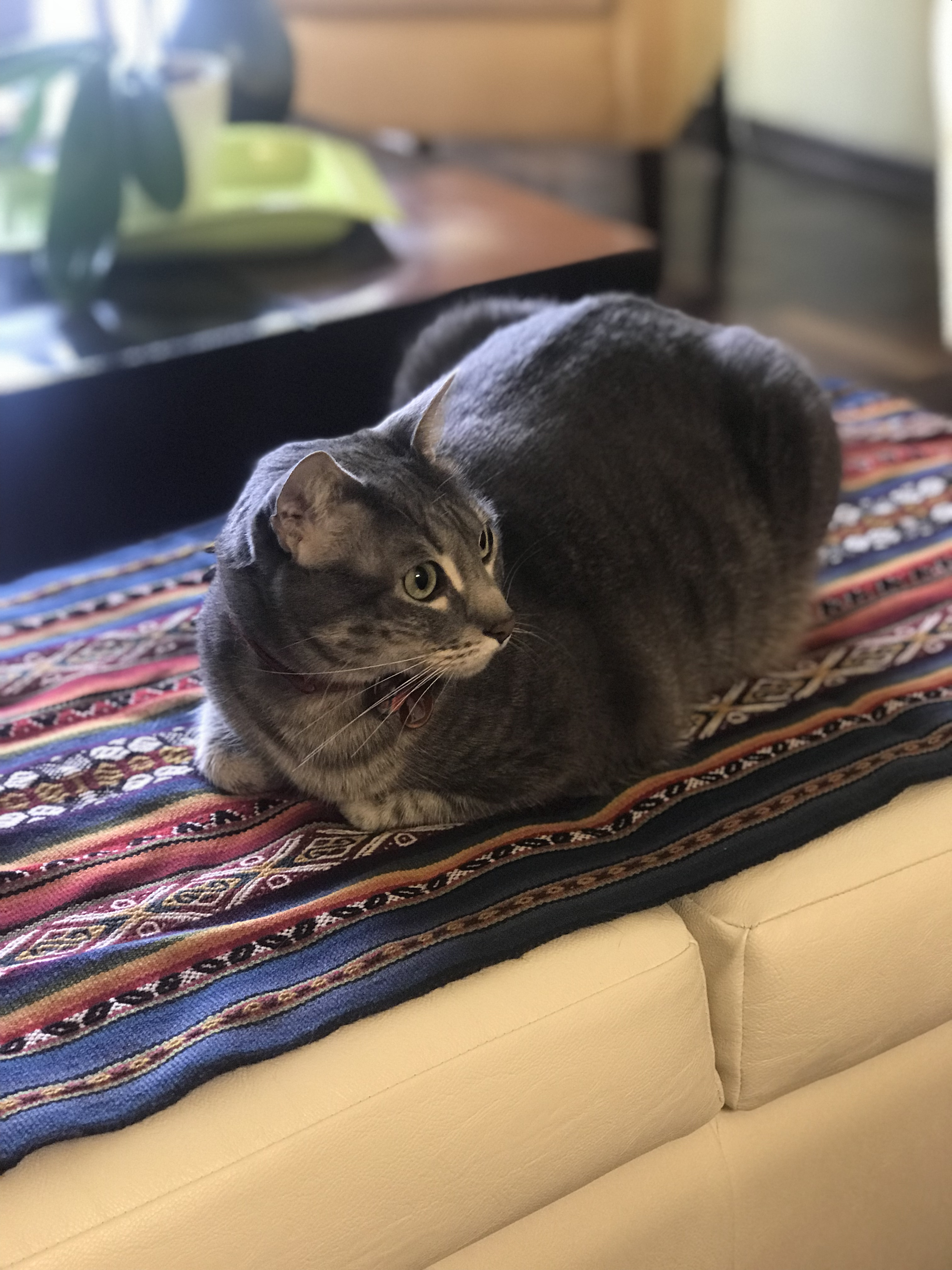 Egyptian Mau cat in Lima, Perú (Diego)